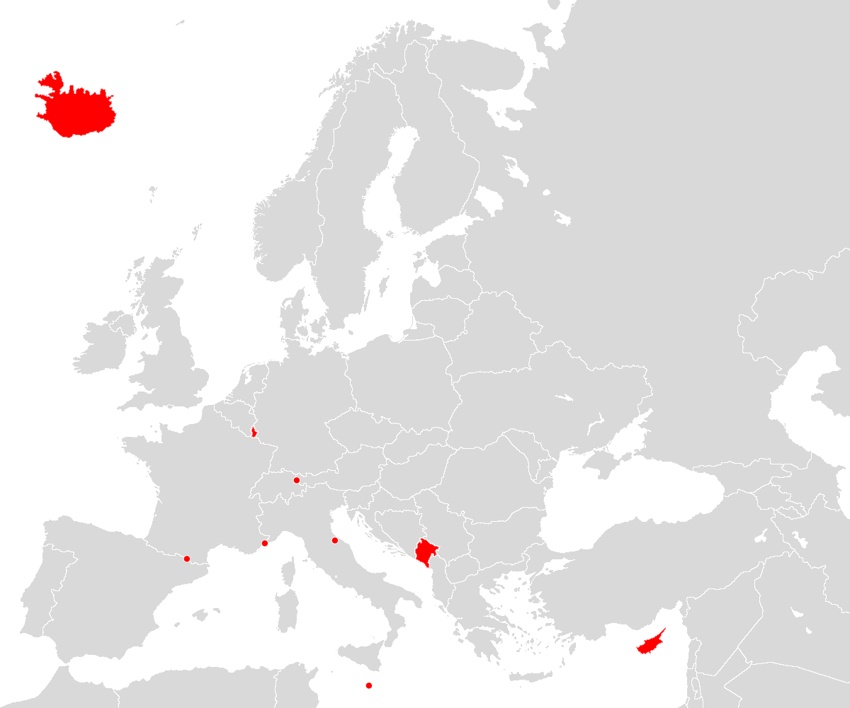 States of Athletic Association of Small States of Europe